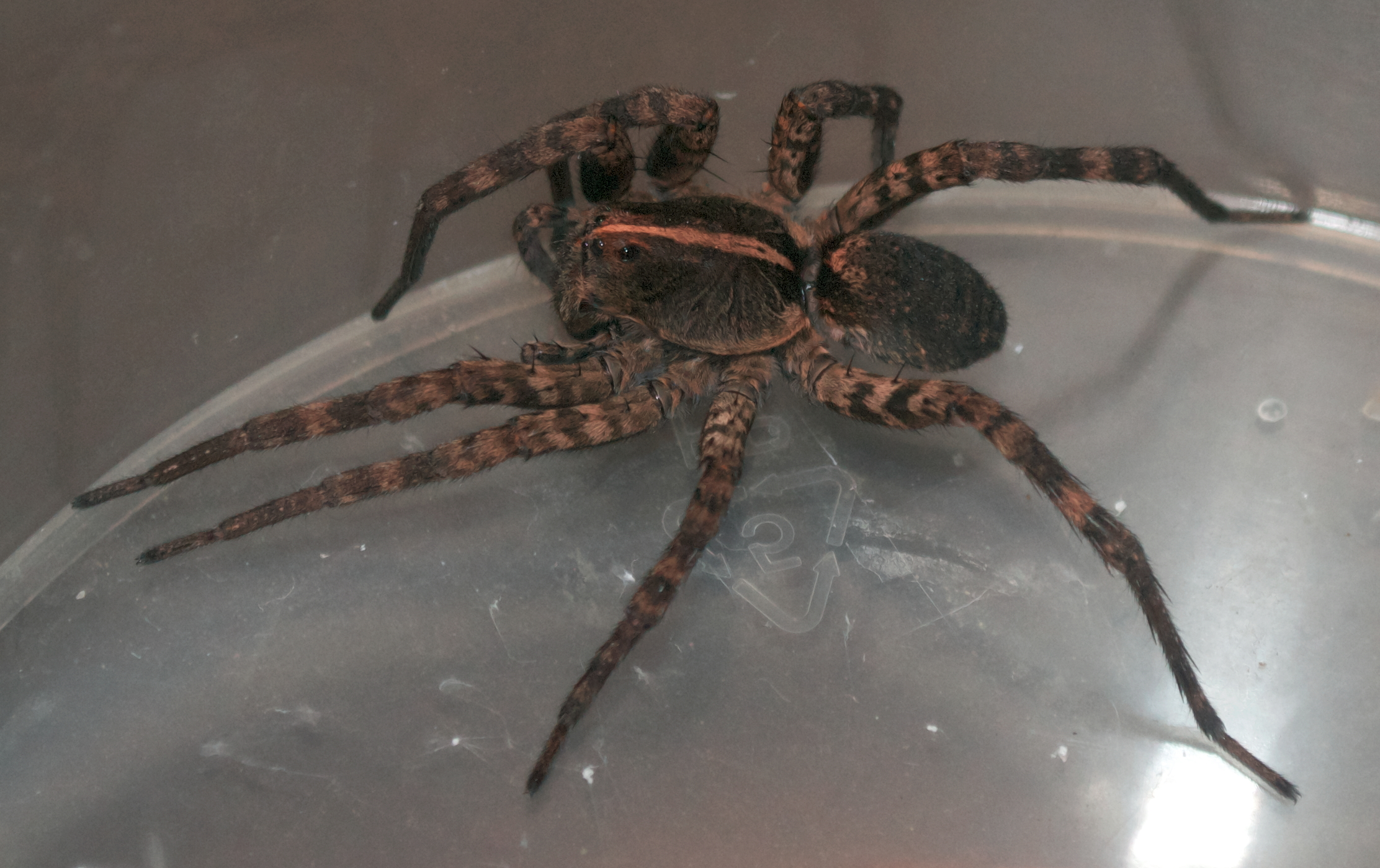 Originally identifed as Hogna carolinensis, usually regarded as the largest wolf spider species in N. America. Its body length is generally around 25mm. (i.e., about one inch). This female was captured at 36° N 80° W. Likely to be a Tigrosa species based on the narrow yellowish median stripe on the carapace.